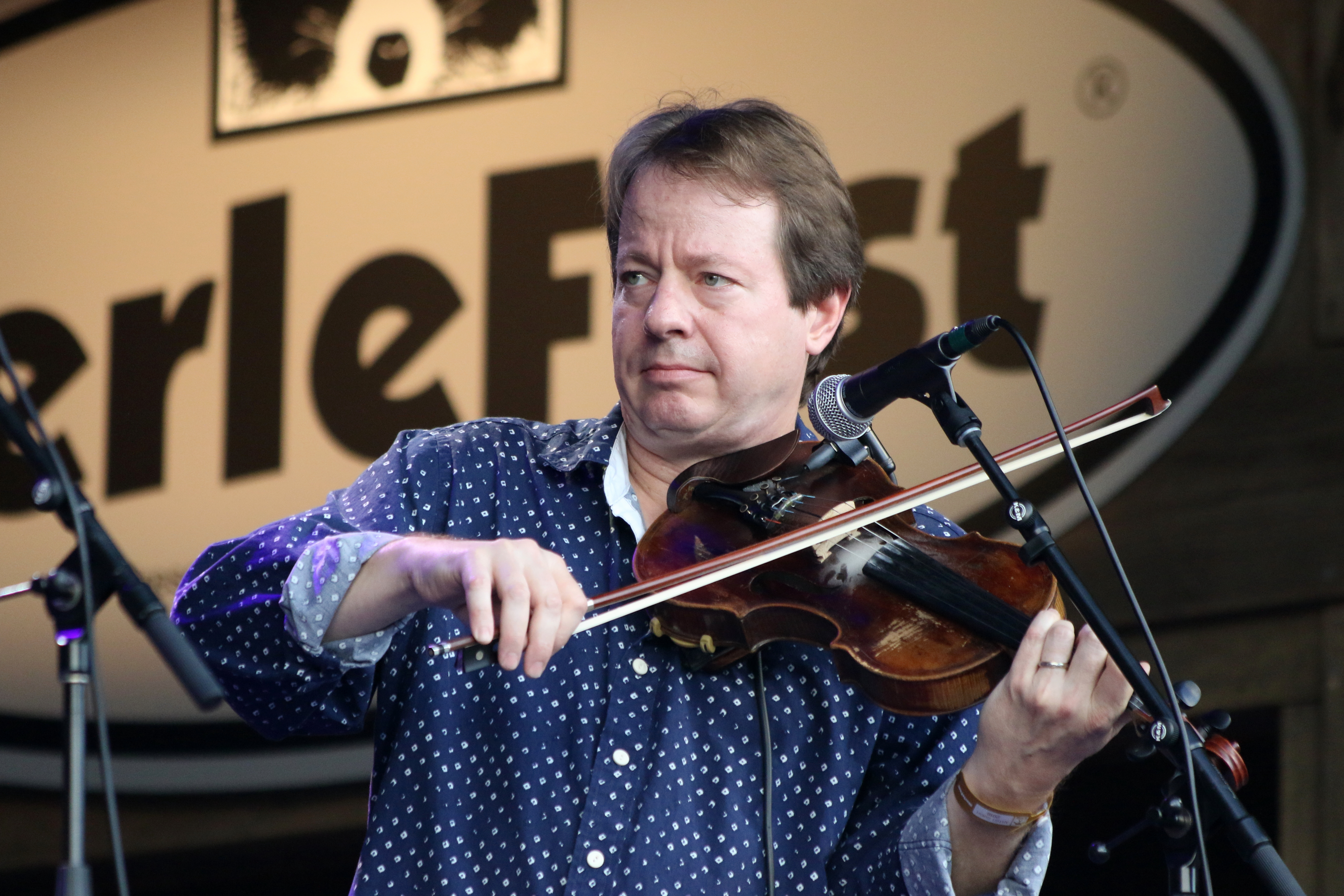 Bluegrass fiddle player Stuart Duncan performing with Alison Brown at the Merle and Doc Watson music festival in Wilkes County, North Carolina, April, 2016.